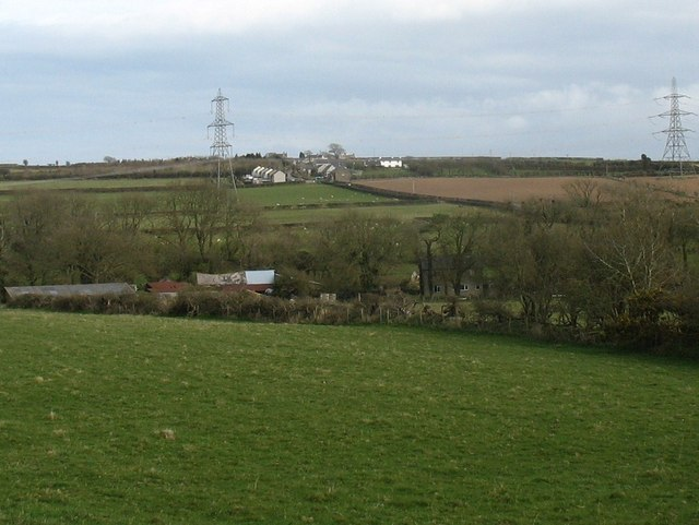 View east towards Clorach Fawr, with the hamlet of Hebron in the background Clorach Fawr, in the Middle Ages, was the home of a branch of the Tuduriaid (the Tudors of British history), including Gwilym Tudur who at the beginning of the 15th C sided with Owen Glyndwr against Henry IV. The two holy wells where Seiriol of Penmon and Cybi of Holyhead daily met, having walked half way across the island, are located on the land of Clorach Fawr.